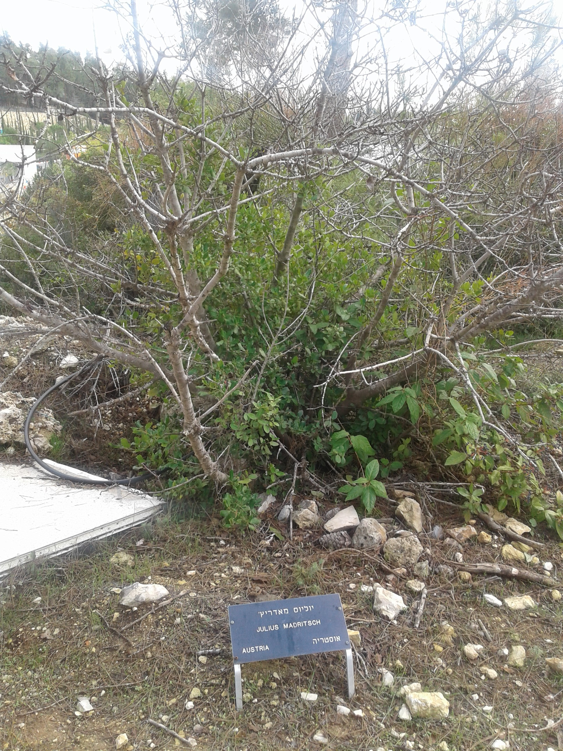 Julius Madritsch tree at Yad Vashem